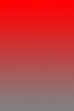 Scale of saturation from 0% (at the bottom) to 100%. When there is 0% saturation, the color appears grey.